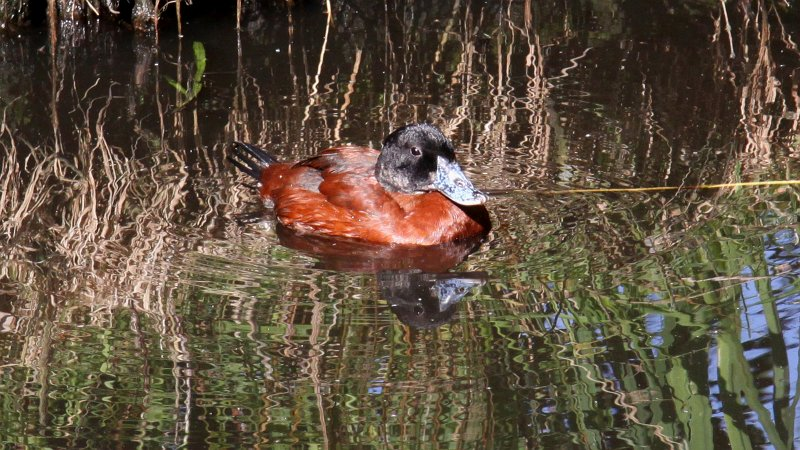 Maccoa Duck (Oxyura maccoa) This image was created by Ken Billington. If you are interested in a high resolution copy of this image, please contact the author Ken Billington in order to negotiate conditions of use. Do not copy this image illegally by ignoring the terms of the license below, as it is not in the public domain. If you would like special permission to use, license, or purchase the image please contact me to negotiate terms. More free images can be found on Ken Billington's Bird & Wildlife Photography.